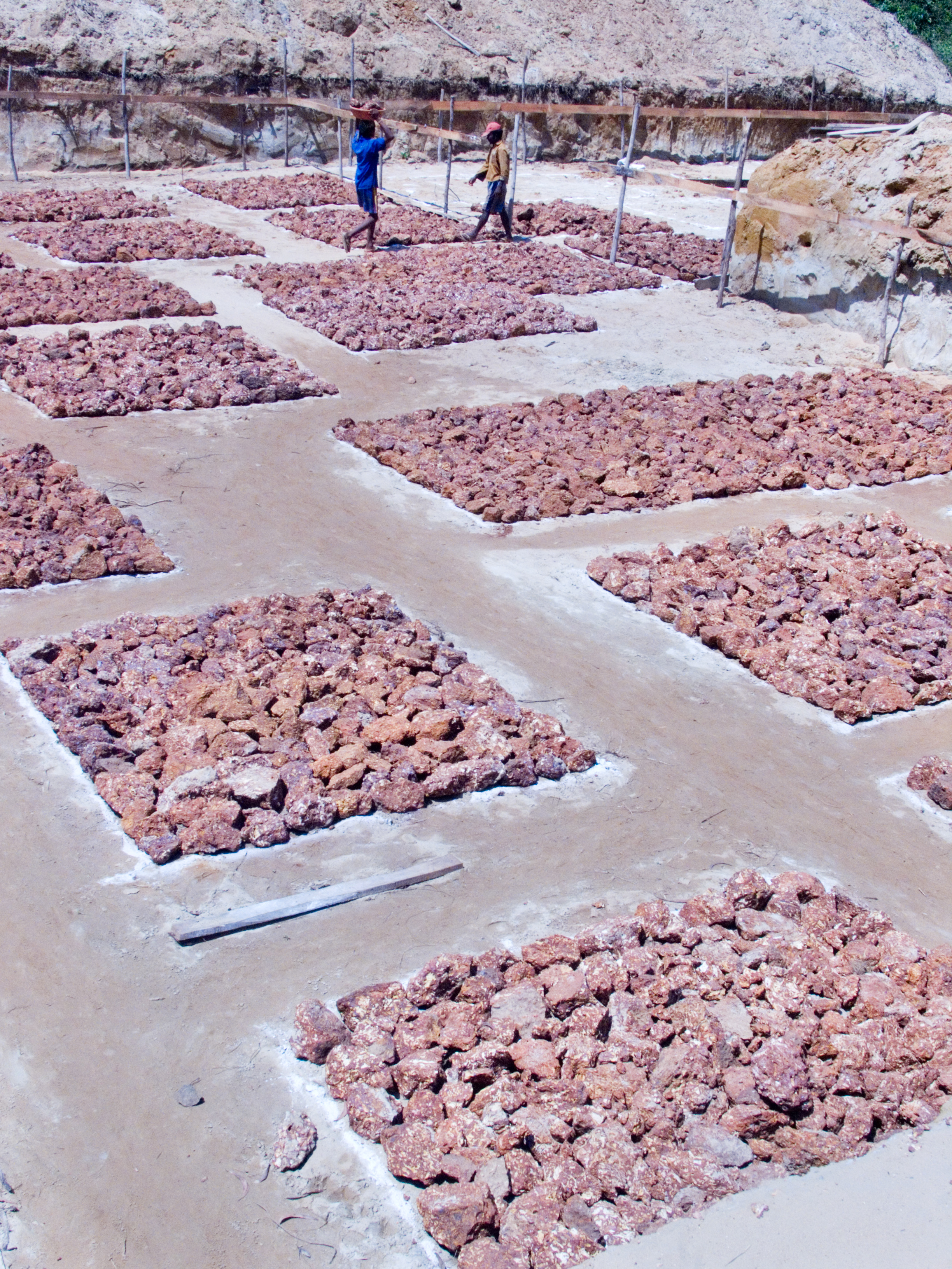 Building foundations with rocks. Goa, India